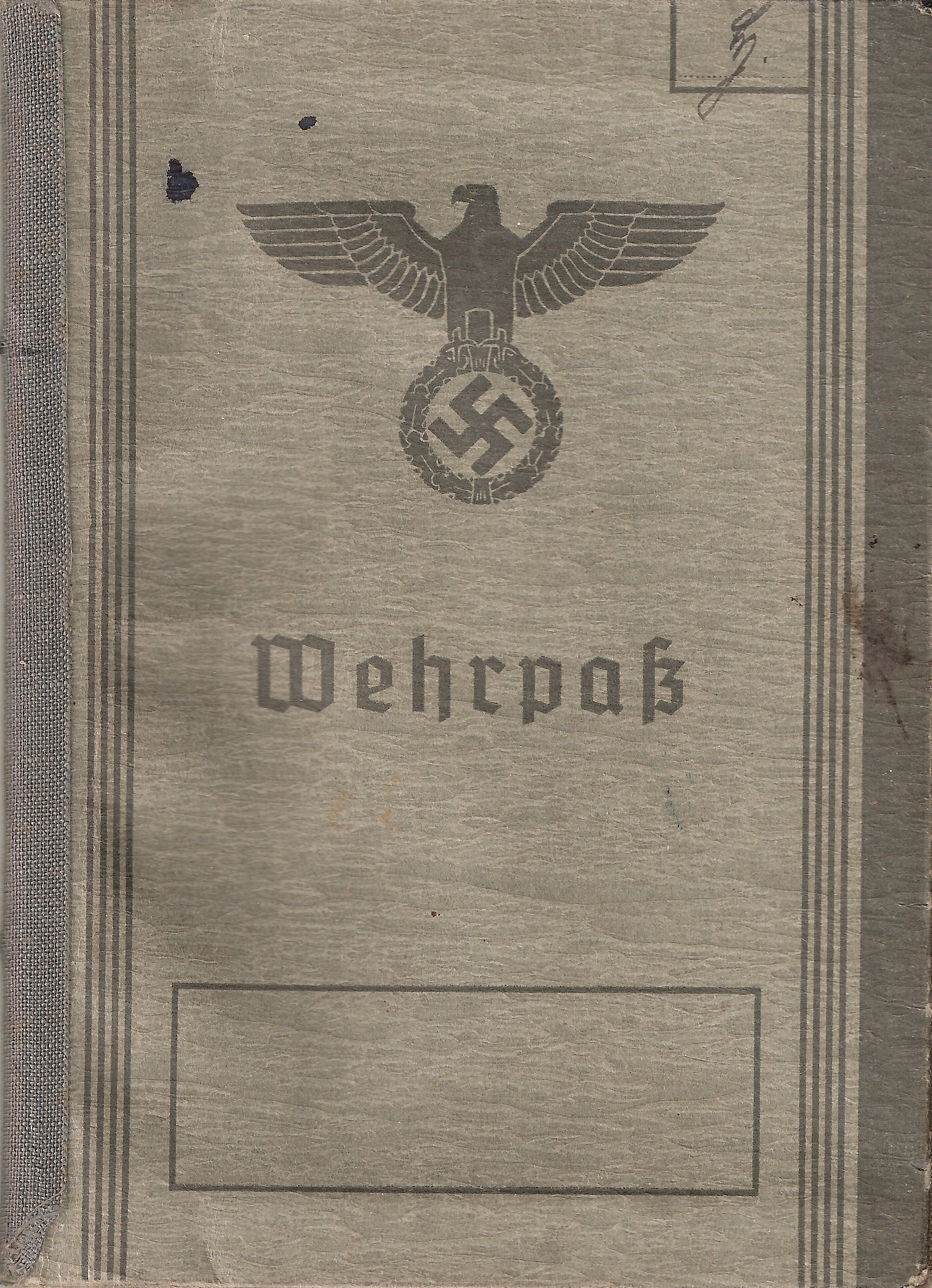 Nazi Wehrpass